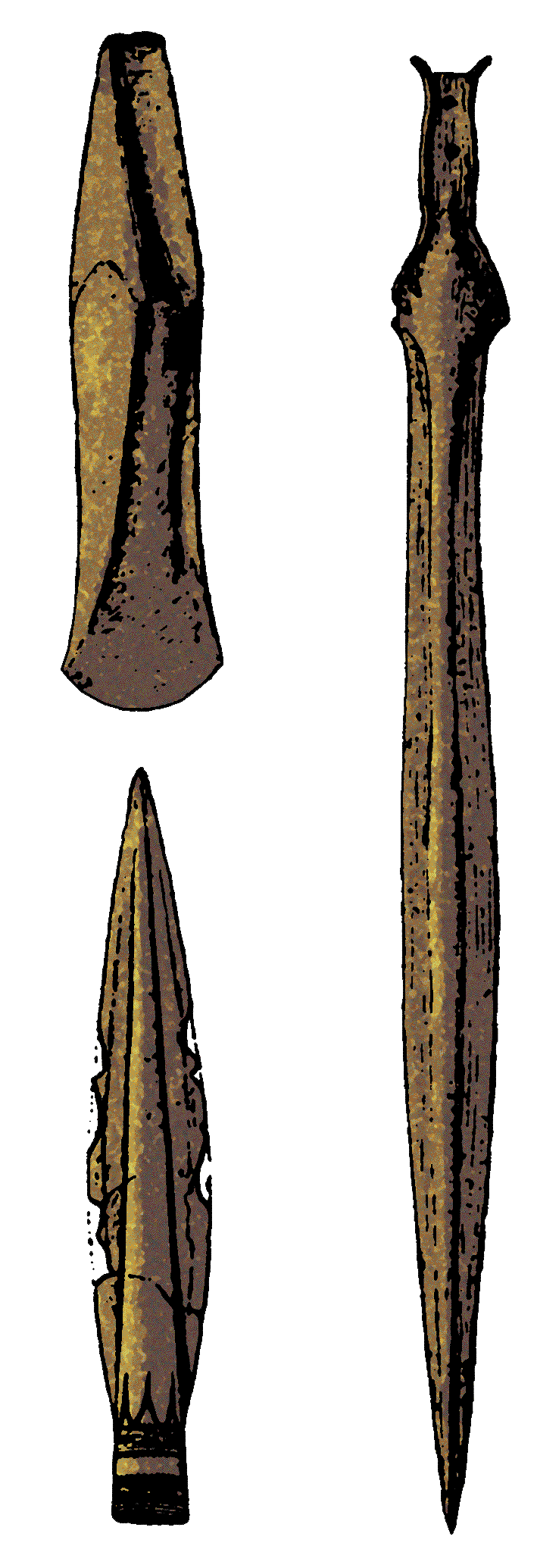 Typical bronze weapons from the Tumulus Culture in the Middle Bronze Ages of Center Europe